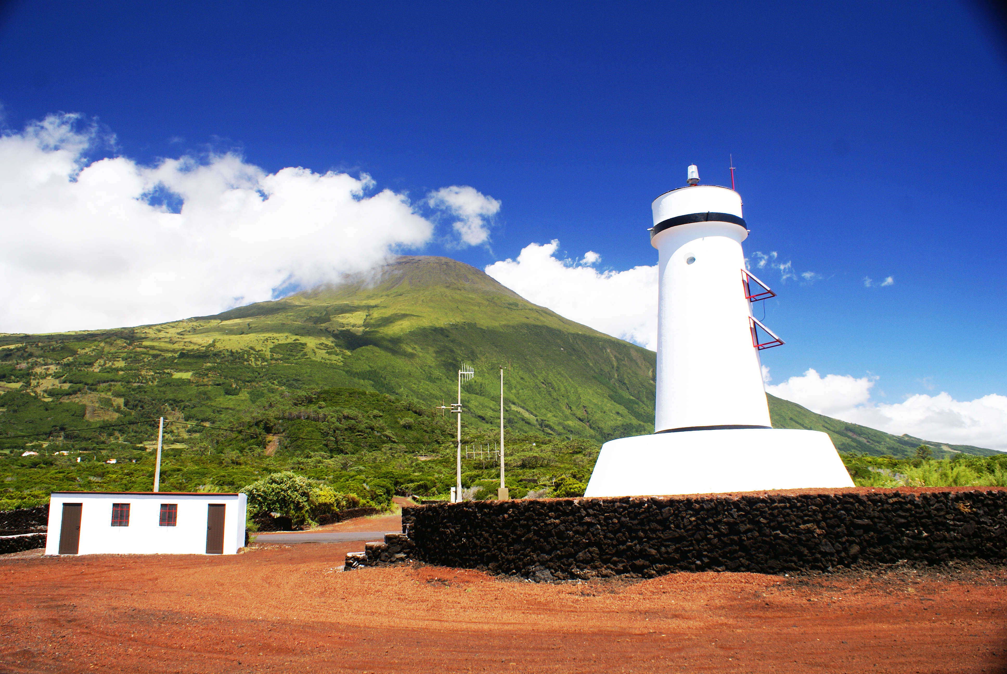 The lighthouse at the Ponta de São Mateus, with the iconic mountain of Pico in the distance, São Mateus, Madalena, Pico (Azores), Portugal